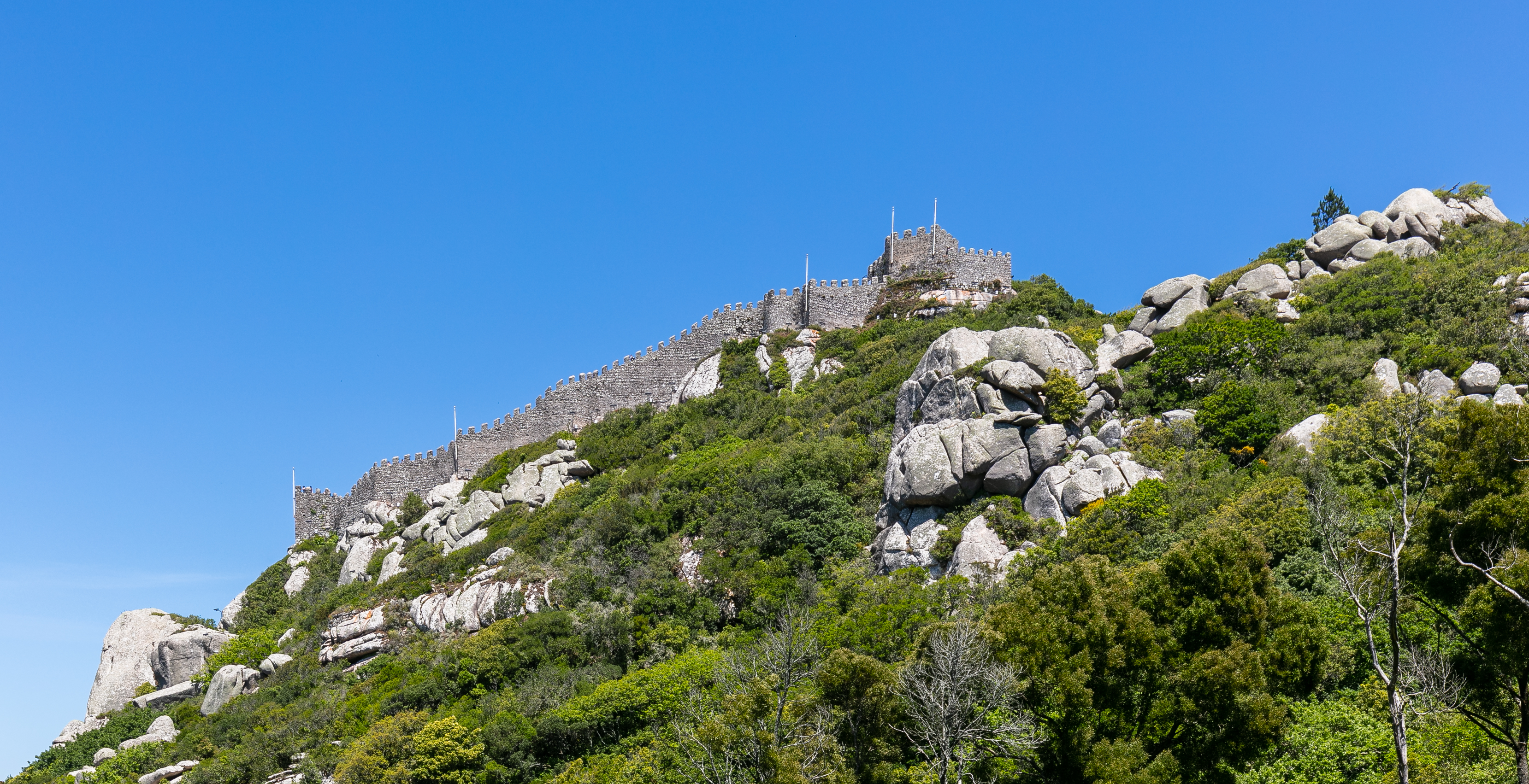 Castelo dos Mouros, Sintra, Portugal